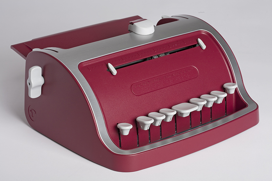 The Perkins Next Generation Brailler